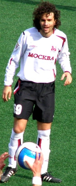 Hector Bracamonte in action for FC Moscow